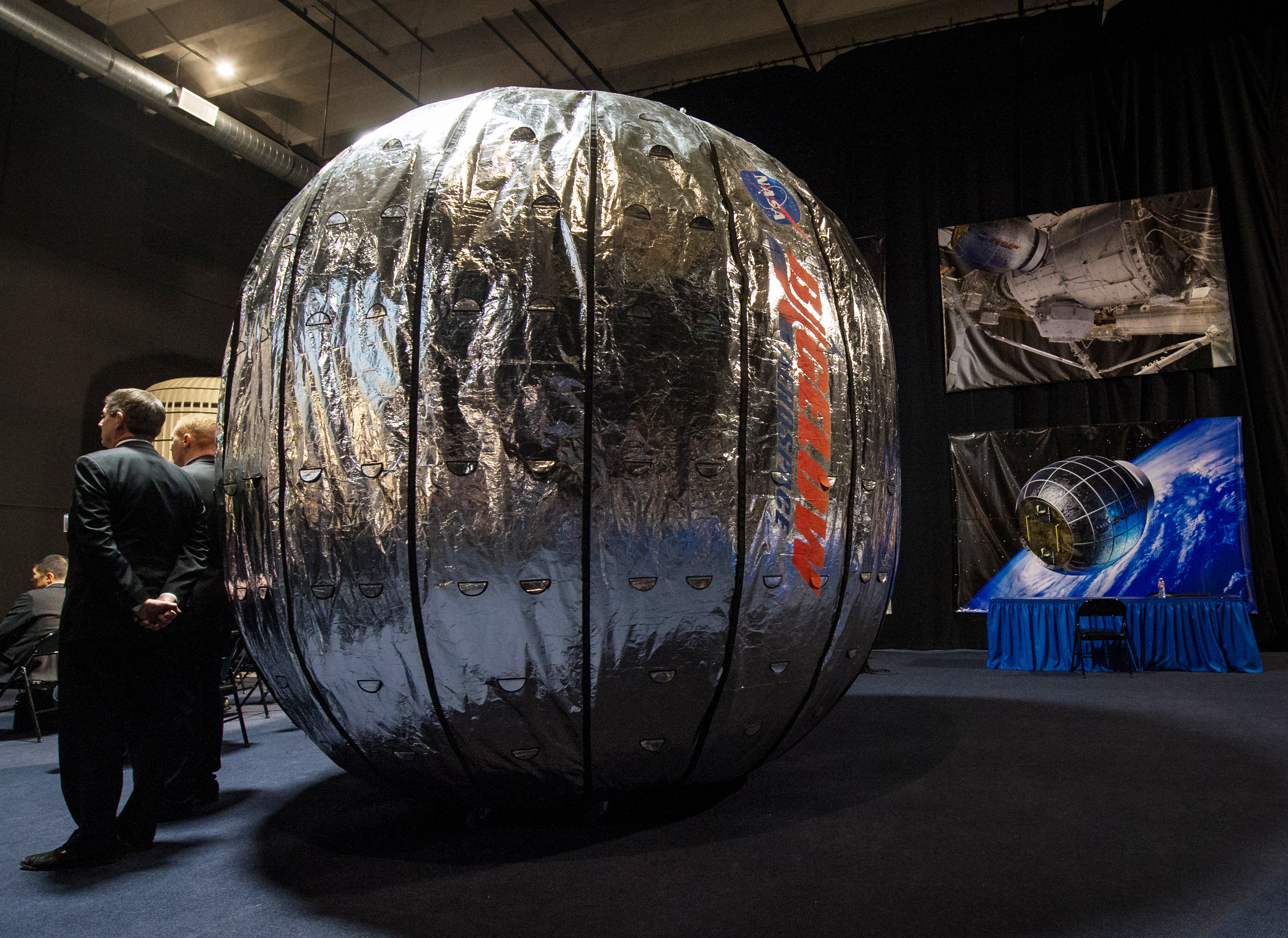 The Bigelow Expandable Activity Module (BEAM) is seen during a media briefing where NASA Deputy Administrator Lori Garver and President and founder of Bigelow Aerospace Robert T. Bigelow announced that BEAM will join the International Space Station to test expandable space habitat technology, Wednesday, Jan. 16, 2013 at Bigelow Aerospace in Las Vegas. BEAM is scheduled to arrive at the space station in 2015 for a two-year technology demonstration.